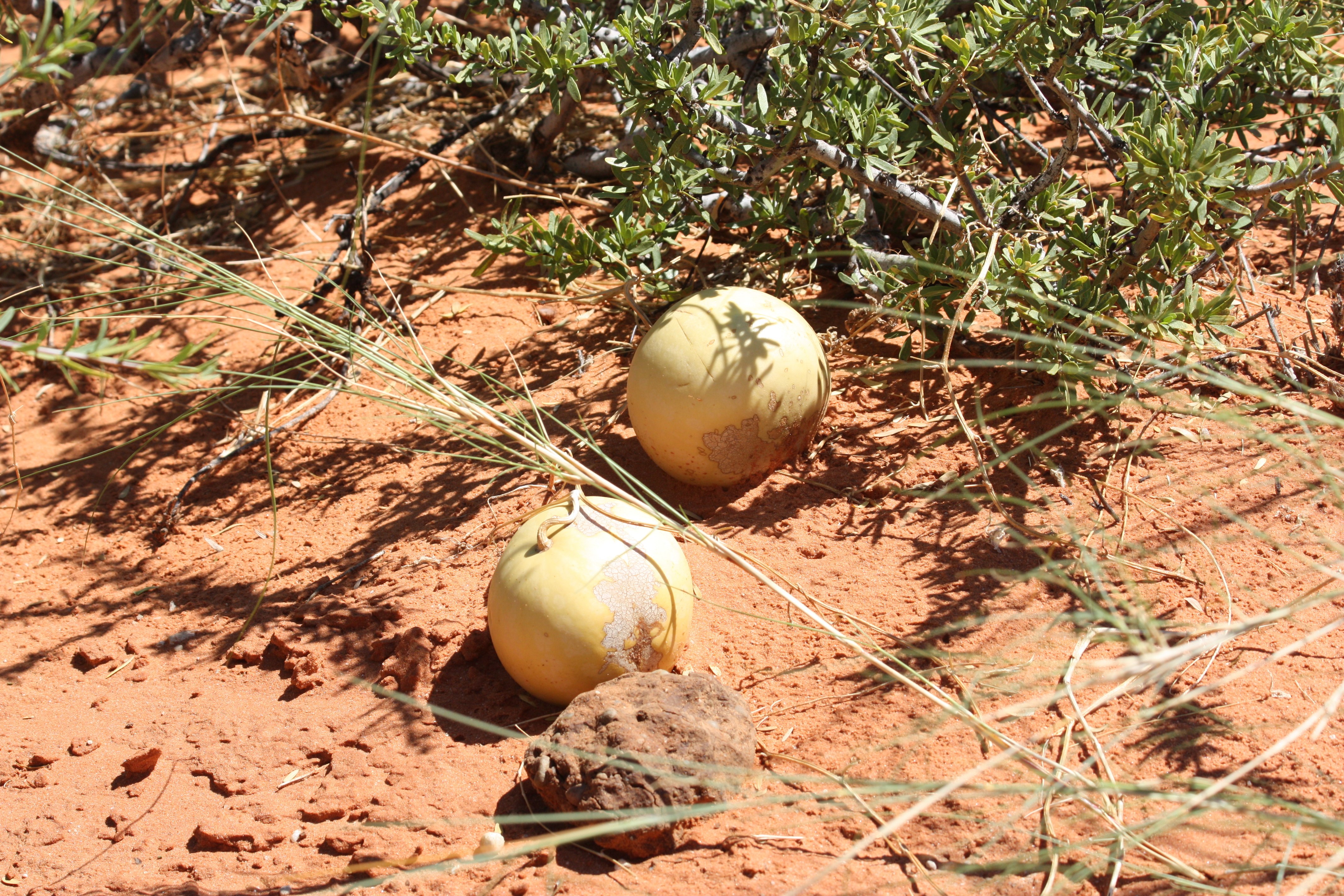 Tsamma melon (Citrullus lanatus) near Kieliekrankie Restcamp in the Kgalagadi Transfrontier Park